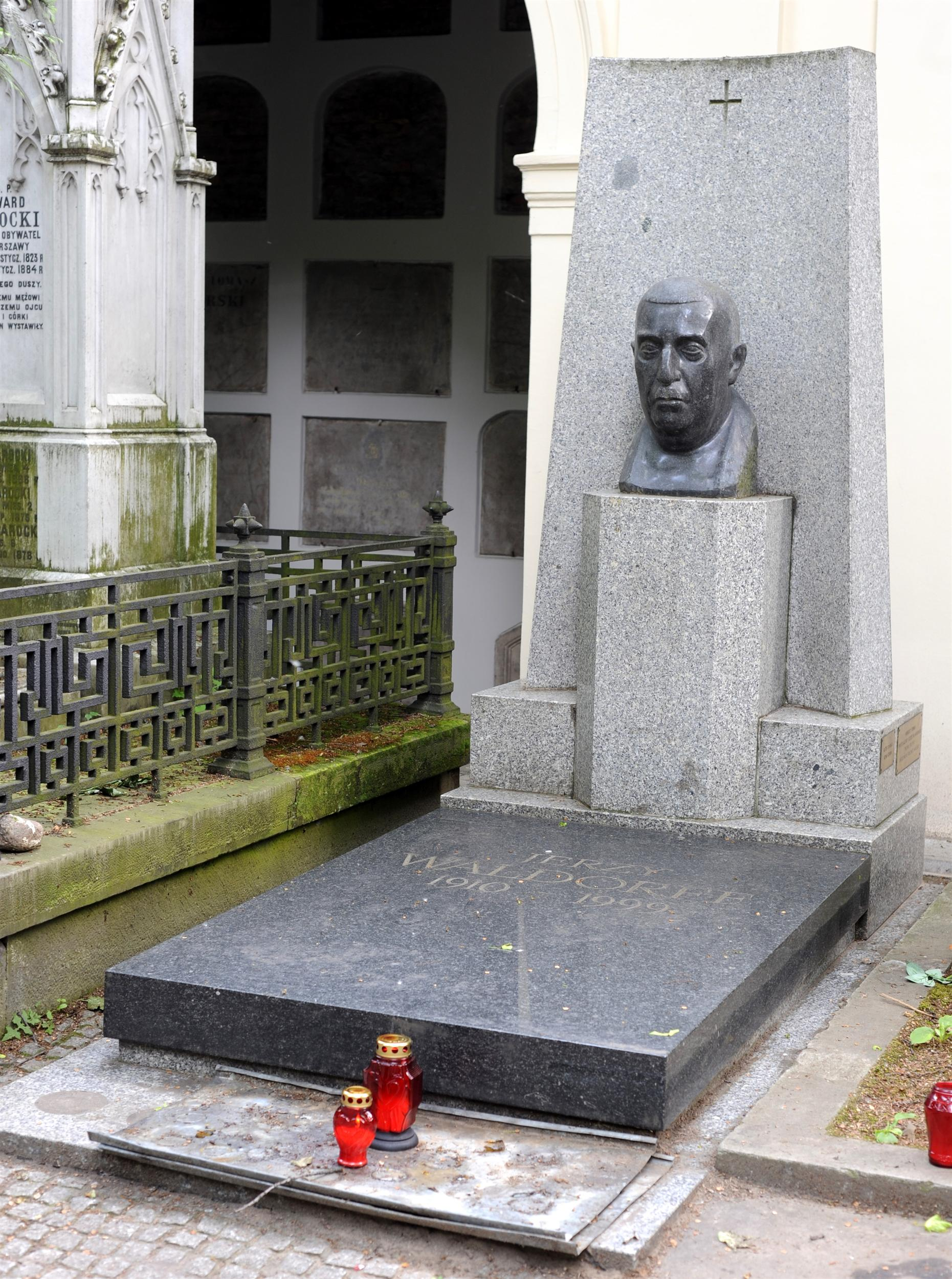 Jerzy Waldorff's monument (Powązki Cemetery)